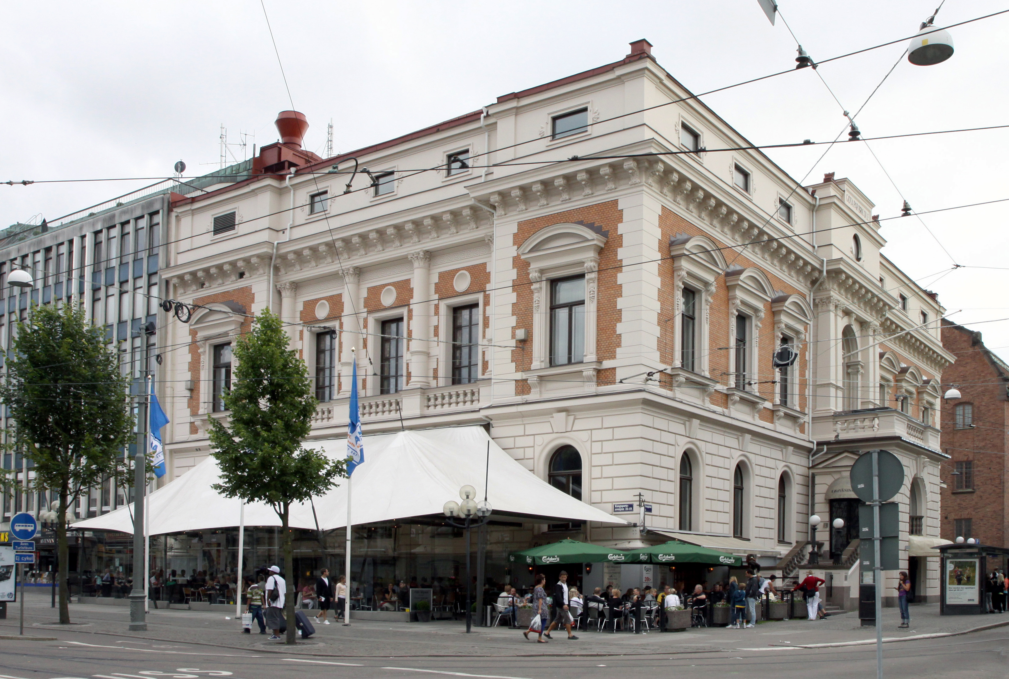 Valandhuset in Gothenburg, Sweden